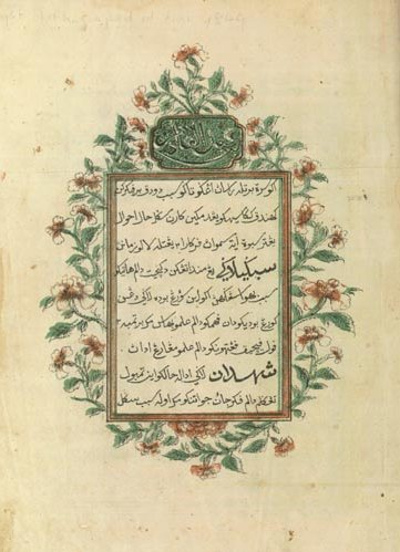 A page of the Hikayat Abdullah by Abdullah bin Abdul Kadir (Munshi Abdullah, 1796–1854) written in Malay in the Jawi script, from the collection of the National Library of Singapore. A rare first edition, it was written between 1840 and 1843, printed by lithography and published in Singapore by the Mission Press in 1849. See Hikayat Abdullah, 1849. Treasures from the World's Great Libraries, National Library of Australia. Retrieved on 2008-11-18.